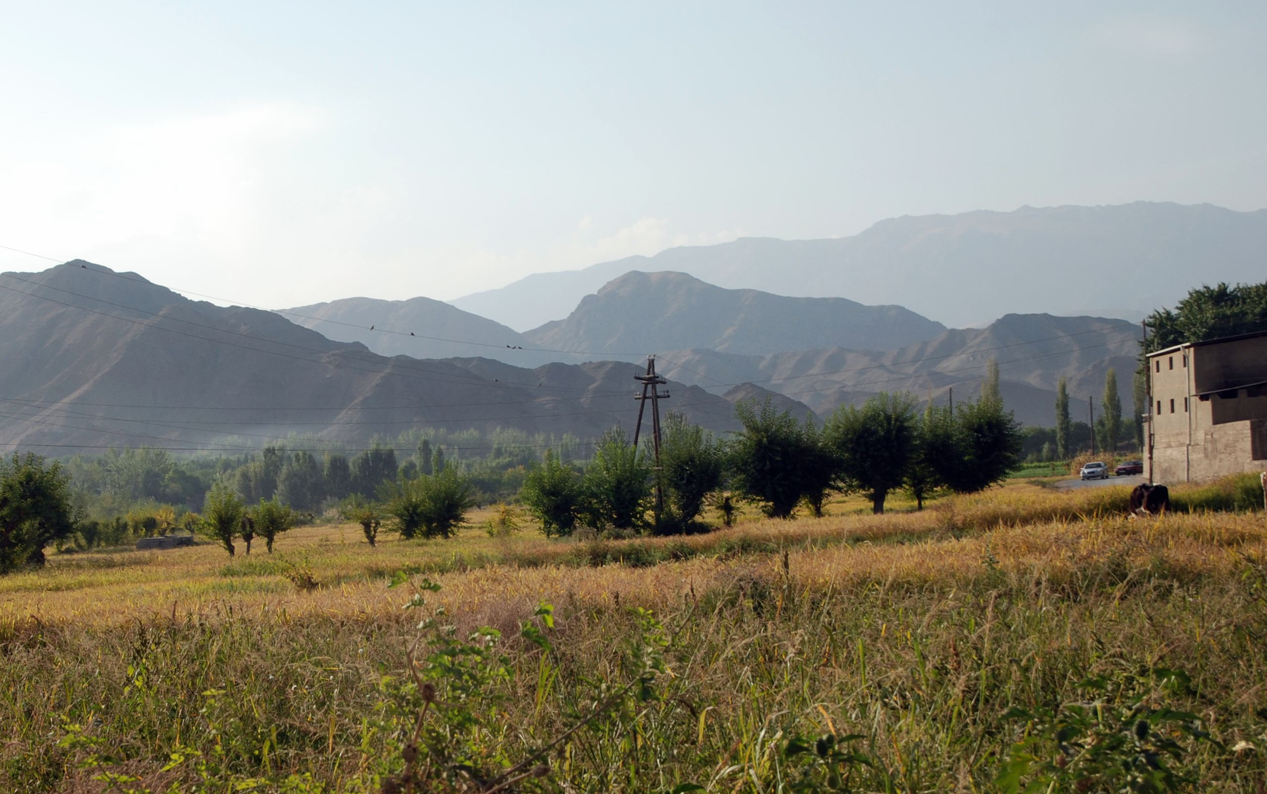 Between Isfara and Chorku